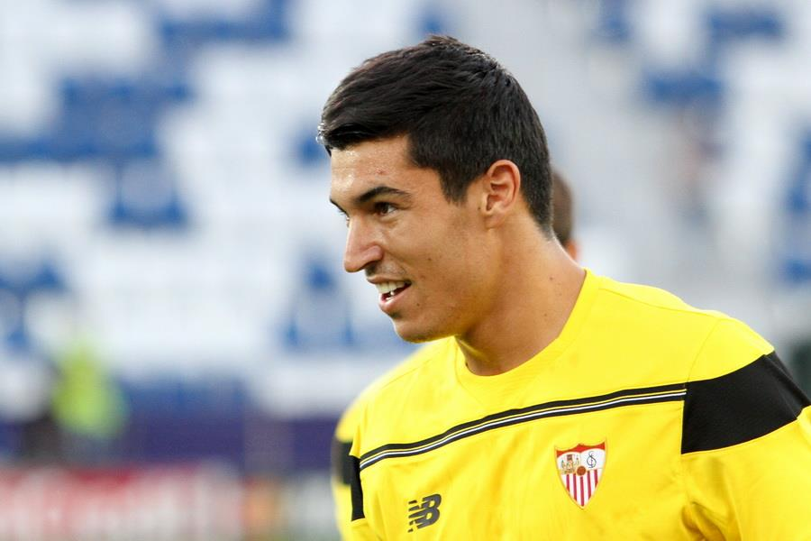 Diego González, Sevilla FC Reserves Team player